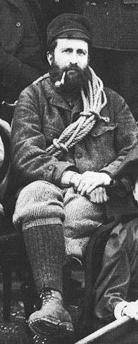 A photo of climber Oscar Eckenstein taken in the 1890s